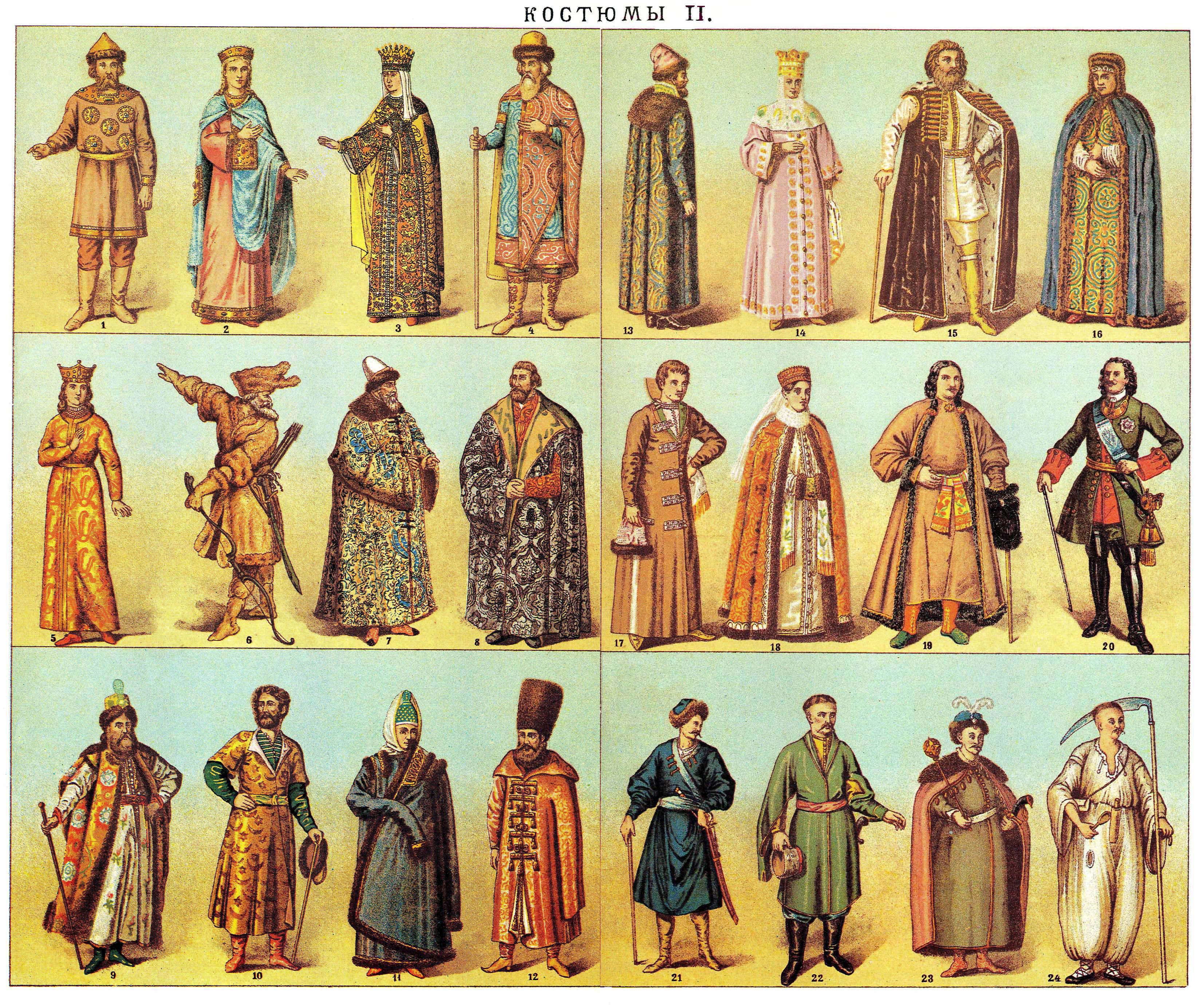 Illustration from Brockhaus and Efron Encyclopedic Dictionary (1890—1907)